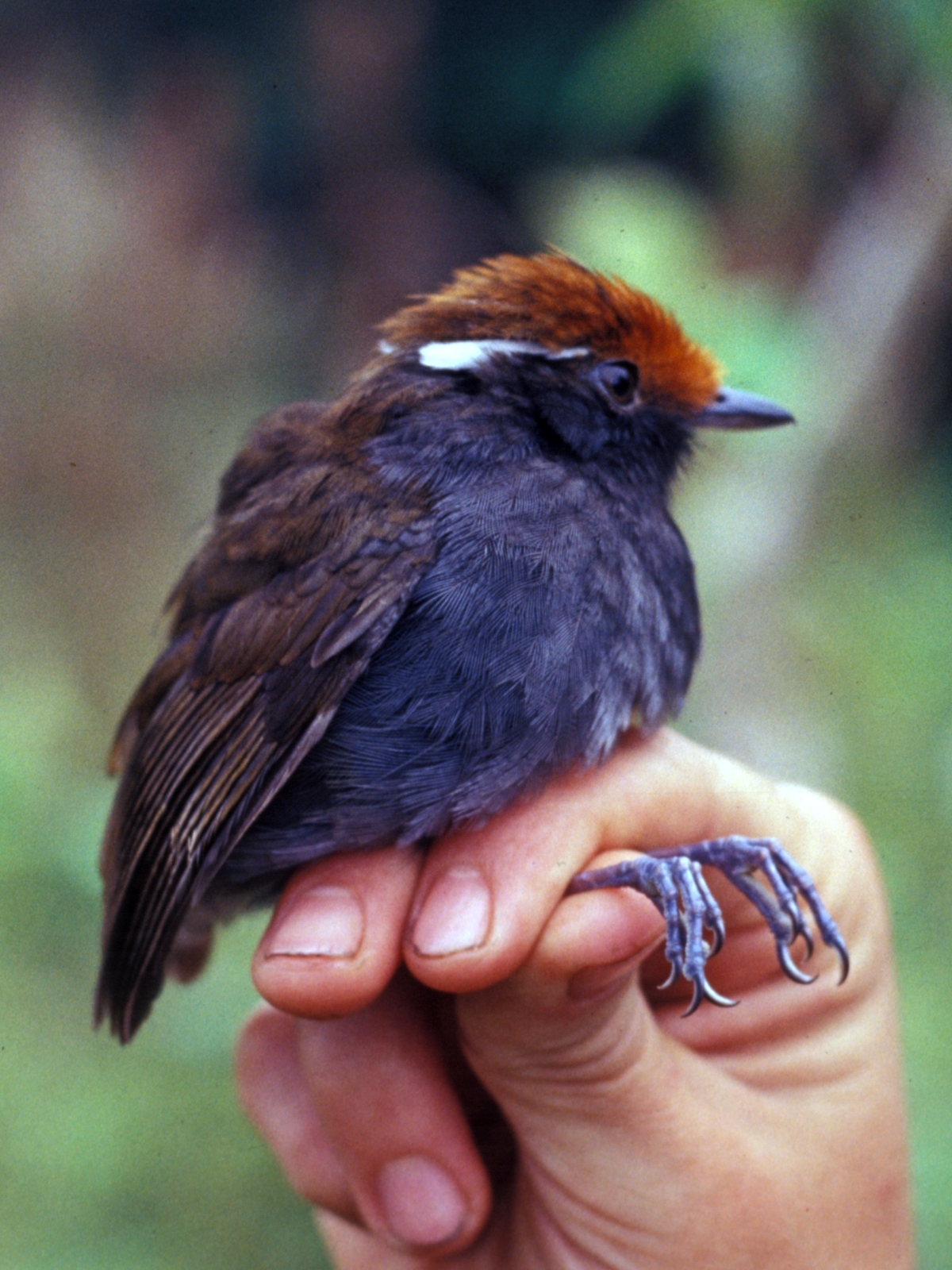 Chestnut-crowned Gnateater (Conopophaga castaneiceps). Male from Cordillera del Cóndor, Ecuador.